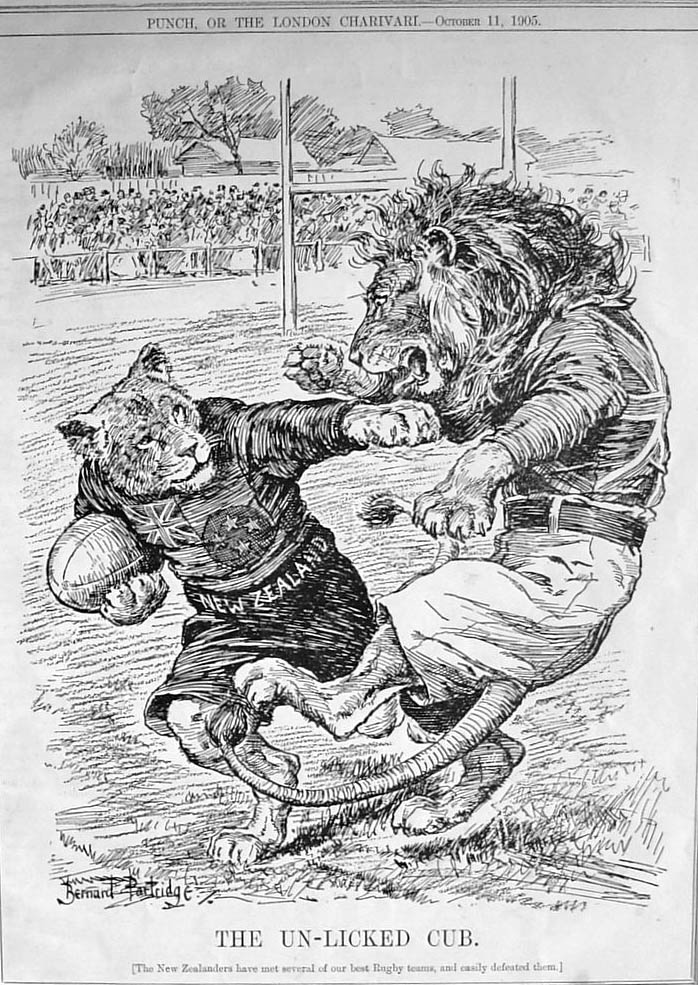 Cartoon from Punch magazine representing the national rugby teams of New Zealand and England. The text below the image says: "the New Zealanders have met several of our rugby teams, and easily defeated them".